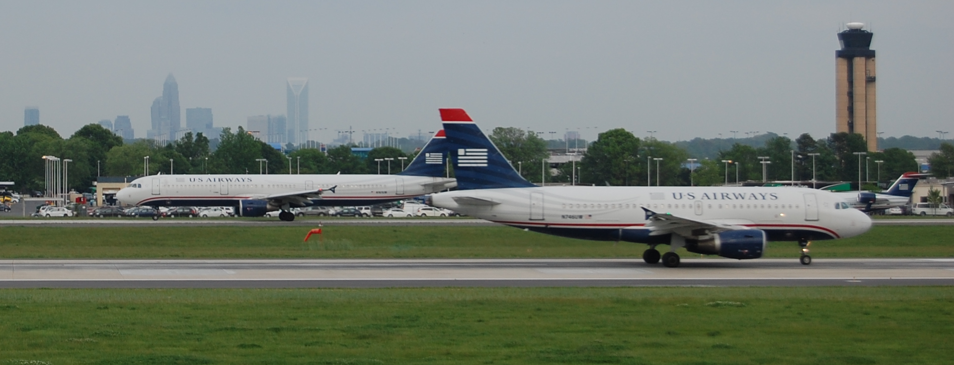 Charlotte Airport with a skyline of the city uptown in the background